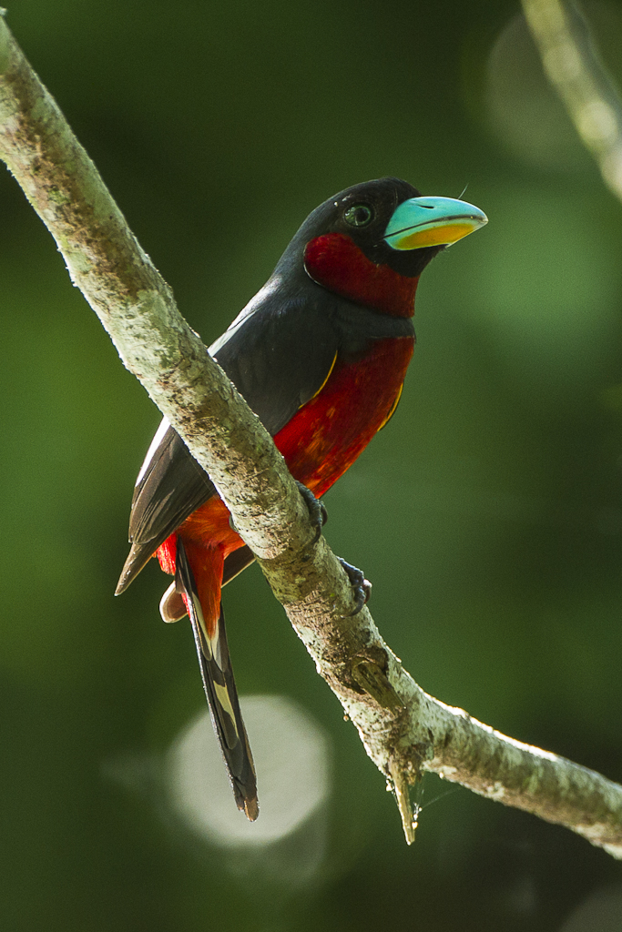 Black-and-red Broadbill - Kang Kra Chan - Thailand_S4E5132